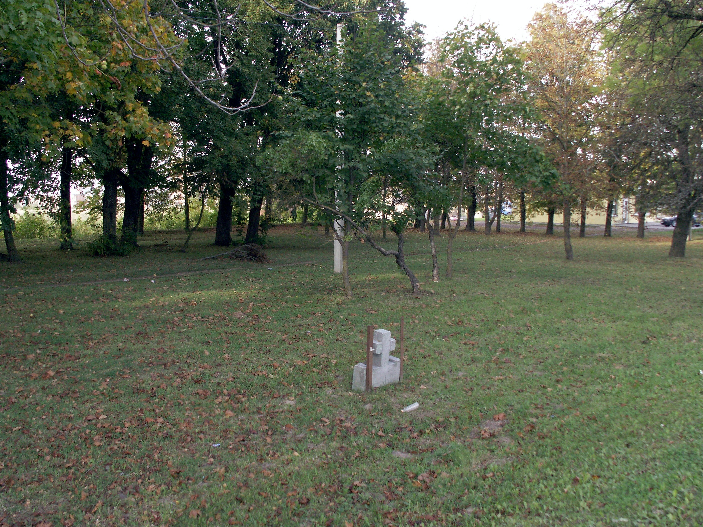 German War Graves in Lieporiai, Šiauliai, Lithuania